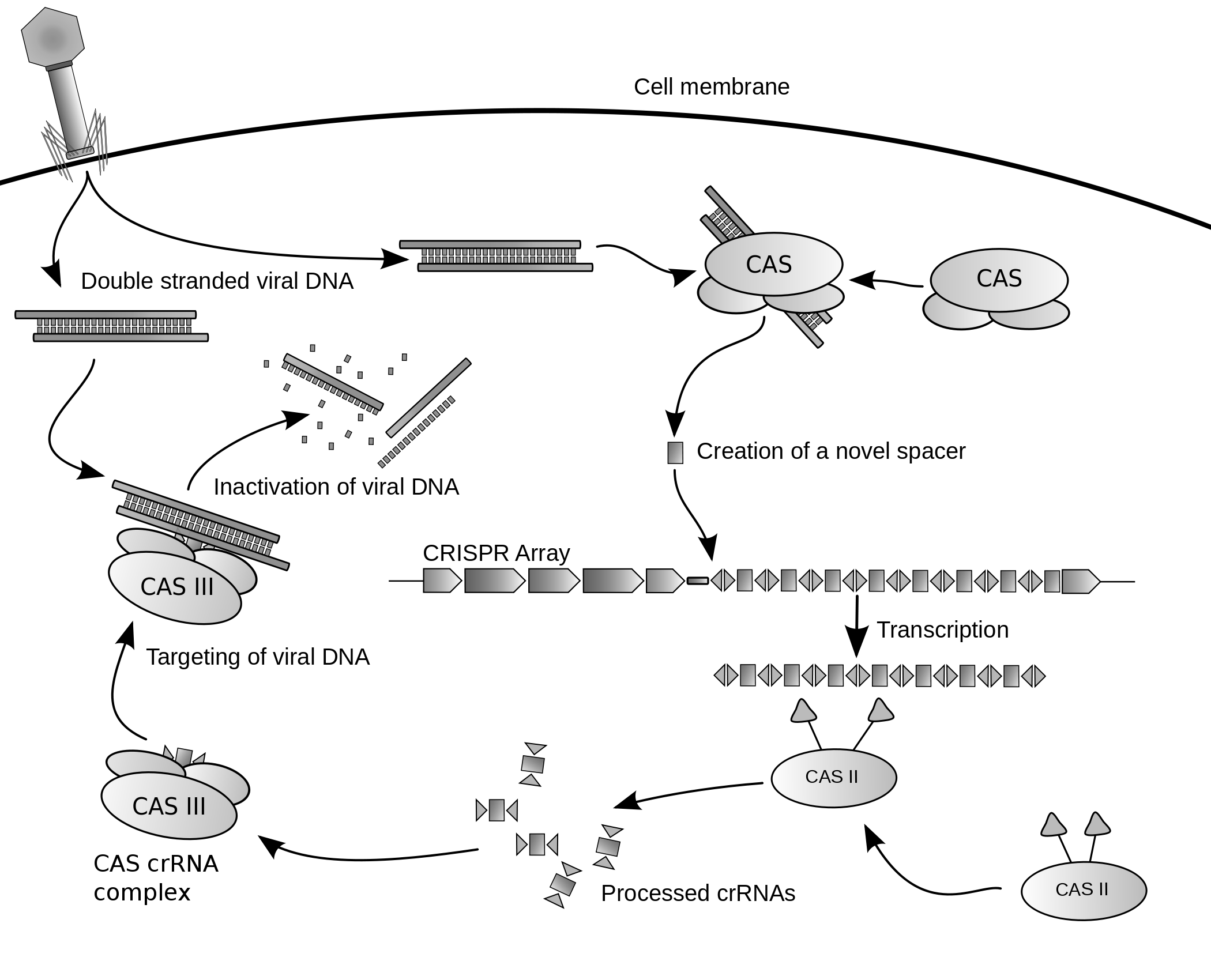 Diagram of the possible mechanism for CRISPR.